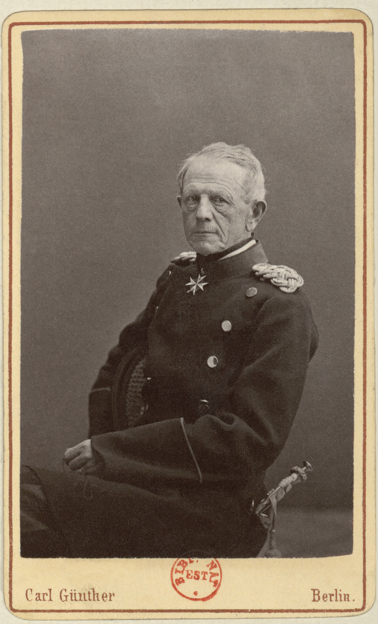 Helmuth von Moltke the Elder (1800-1891). He was the chief of the Prussian General Staff during 30 years, won the second Schleswig War, the Austro-Prussian War, and the Franco-Prussian War, especially the Battle of Sedan.